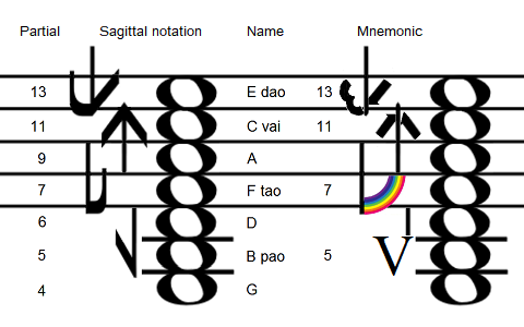 Sagittal microtonal notation for a 4:5:6:7:9:11:13 harmonic thirteenth chord on G in extended just intonation, showing partials, Sagittal notation, names and mnemonics.